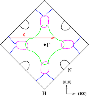 A sketch in -space of a (001) section of the Fermi surface of Cr. The band structure of Cr yields an electron pocket (green) centered at and a hole pocket (blue) centered at H. The boundaries of these two kinds of pockets have large parallel regions that can be spanned by the nesting wavevector shown in red. The real-space periodicity of the resulting spin-density wave is given by .